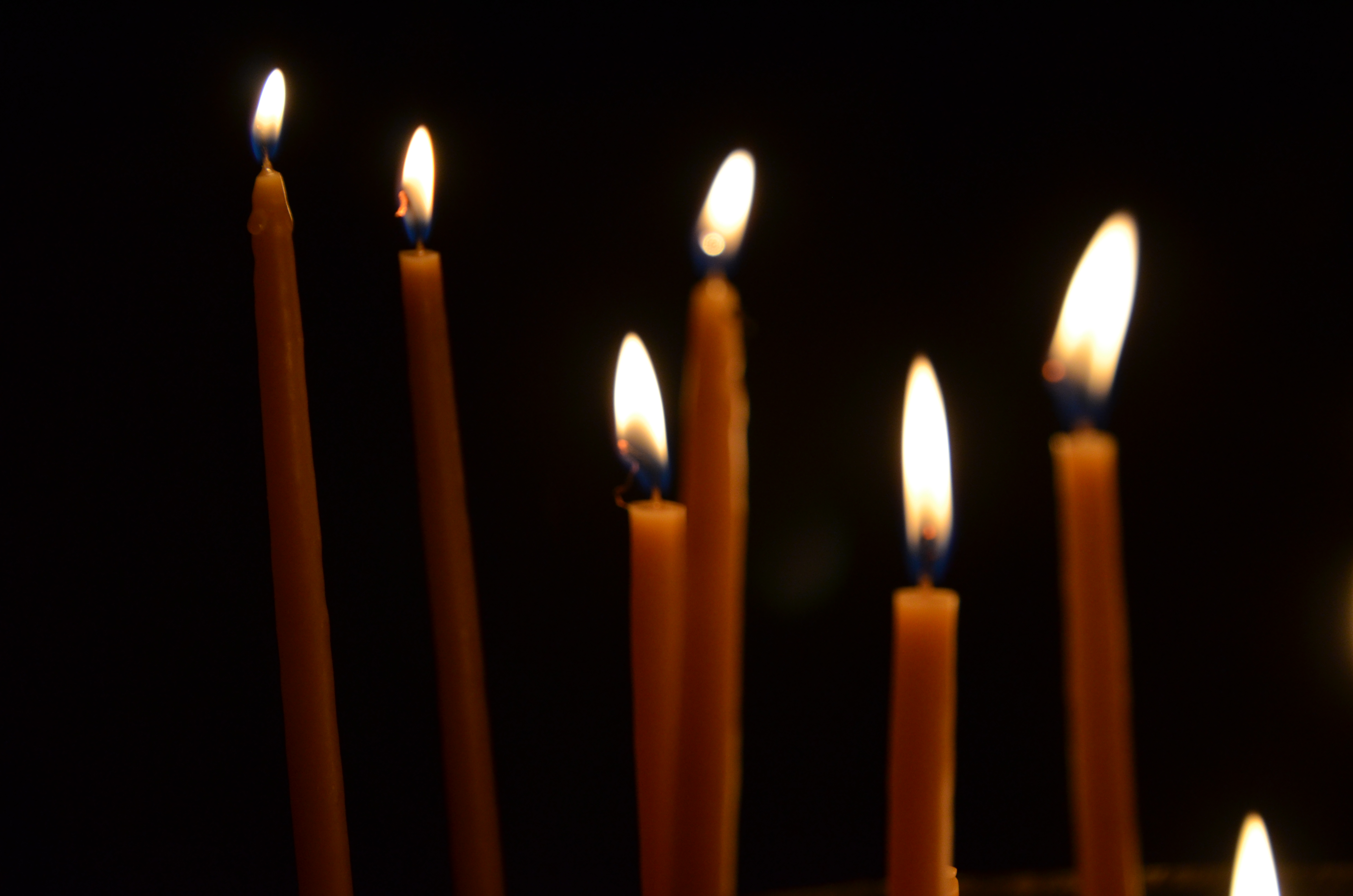 there are come candels of a small church in alonissos, Greece.